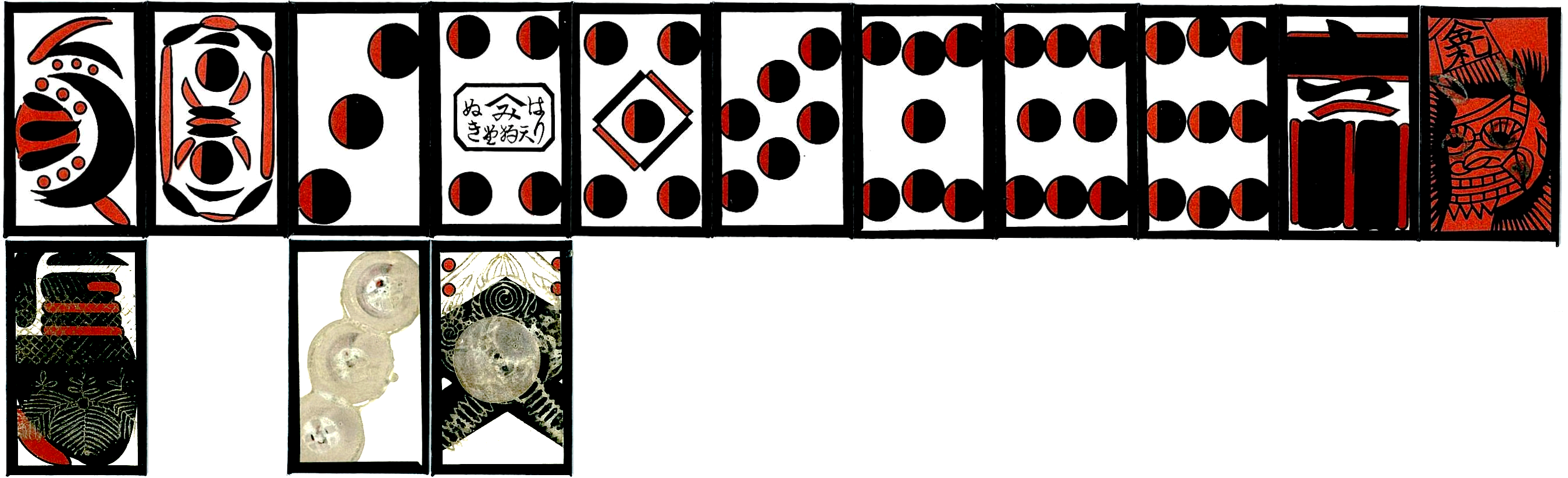 Komaru